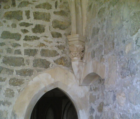 Detail from the castle of Porto de Mós, in Portugal.